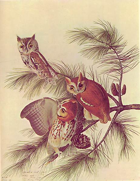 Illustration of Megascops asio (syn. Otus asio) by John James Audubon